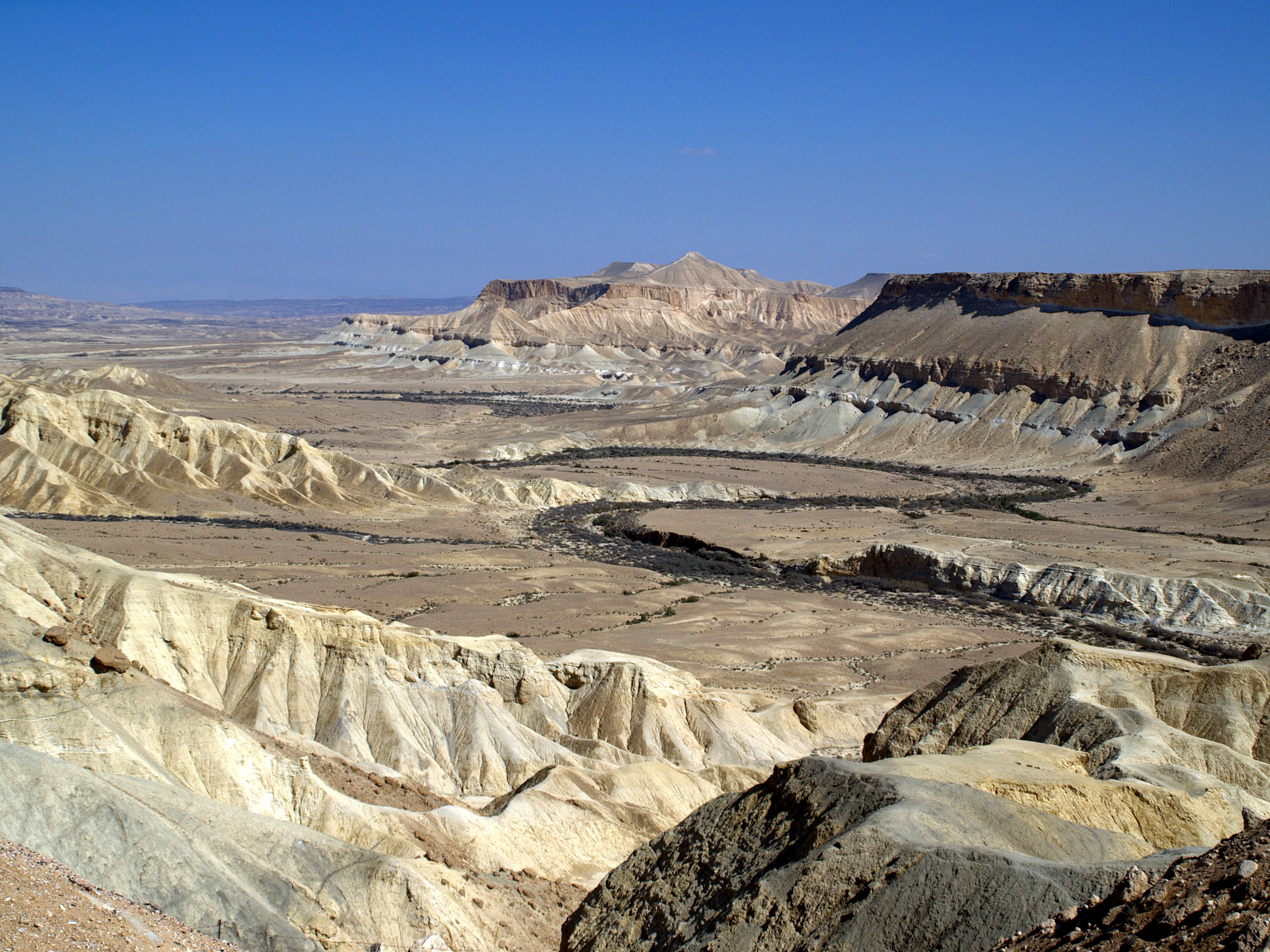 The Zin Valley in the Negev Desert of Israel, as seen from the grave of David Ben-Gurion at Midreshet Ben-Gurion.